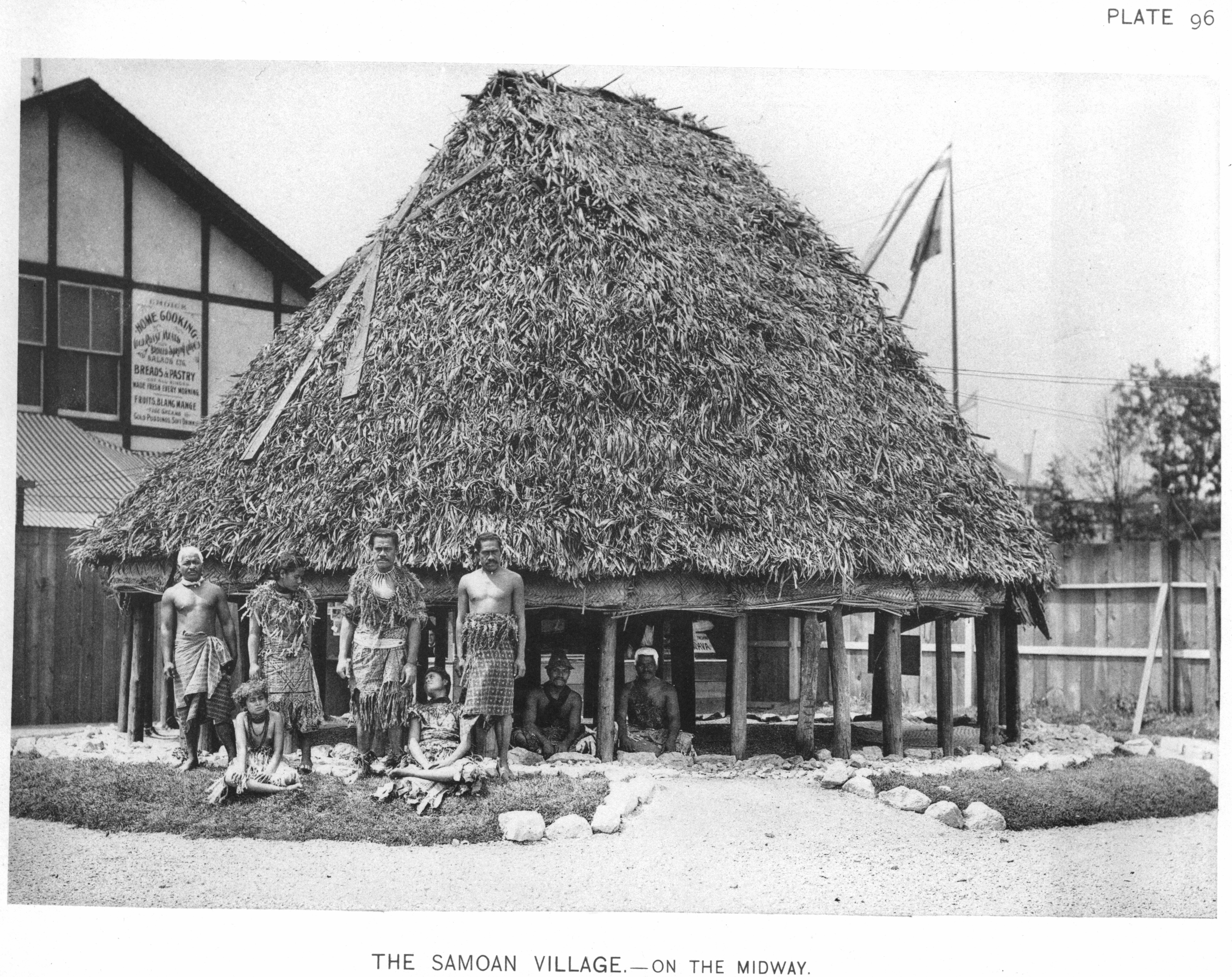 Official Views Of The World's Columbian Exposition: The Samoan Village--On The Midway